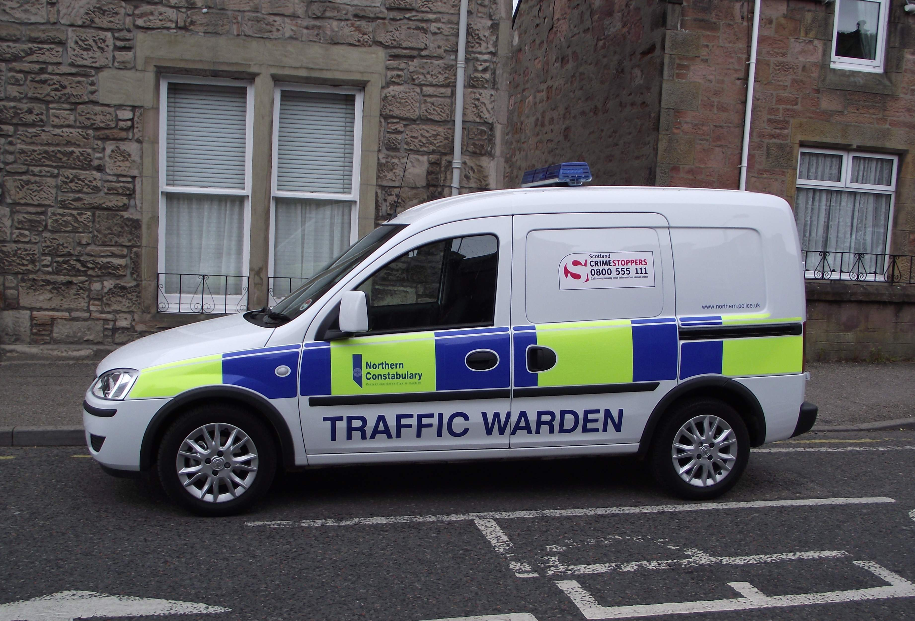 Transport used by Inverness Traffic Wardens to cover the Marymas Fair Parade on 18.6.11